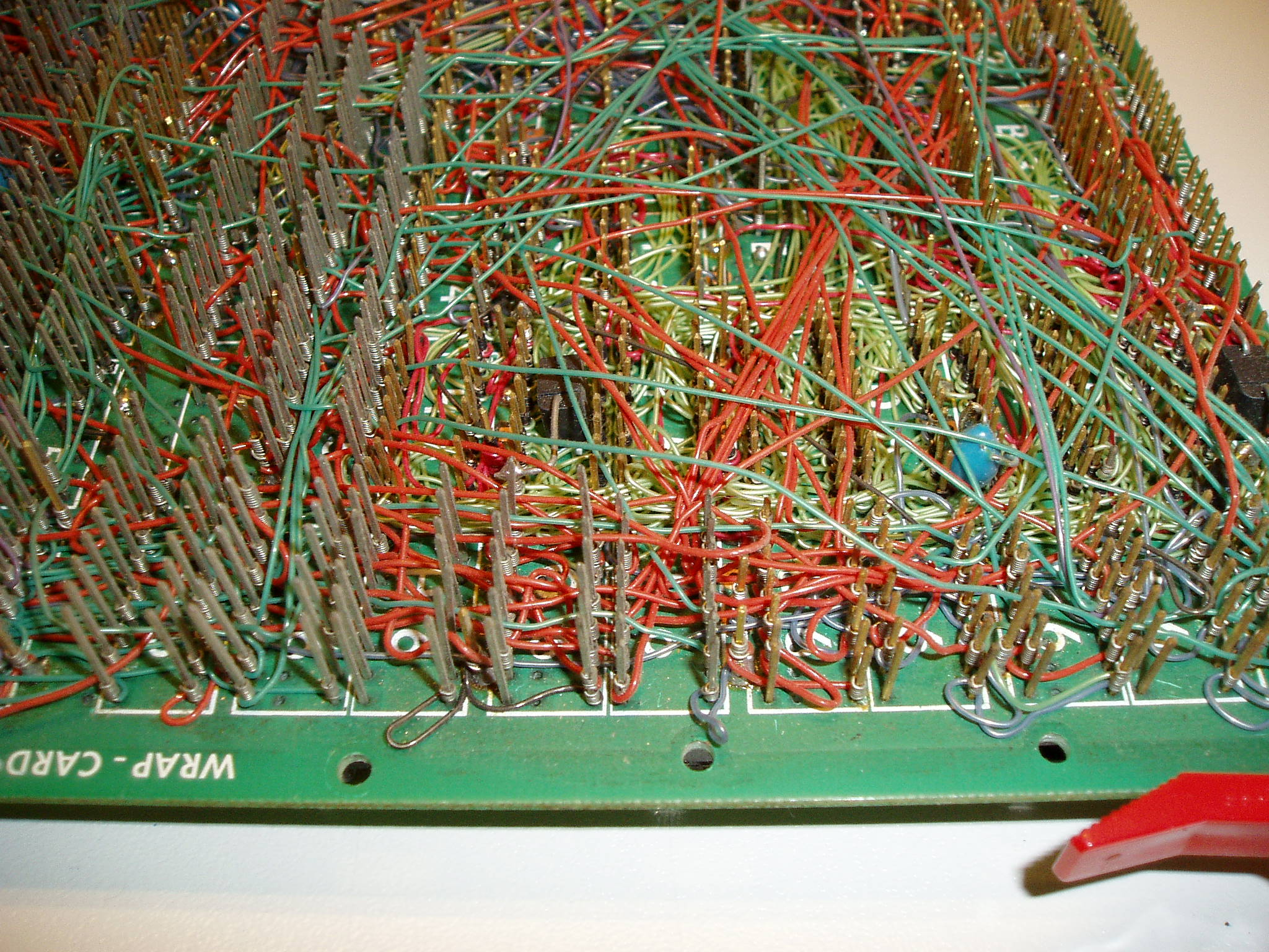 Computerboard Wire-wrap backplane detail, Double-Europe card size